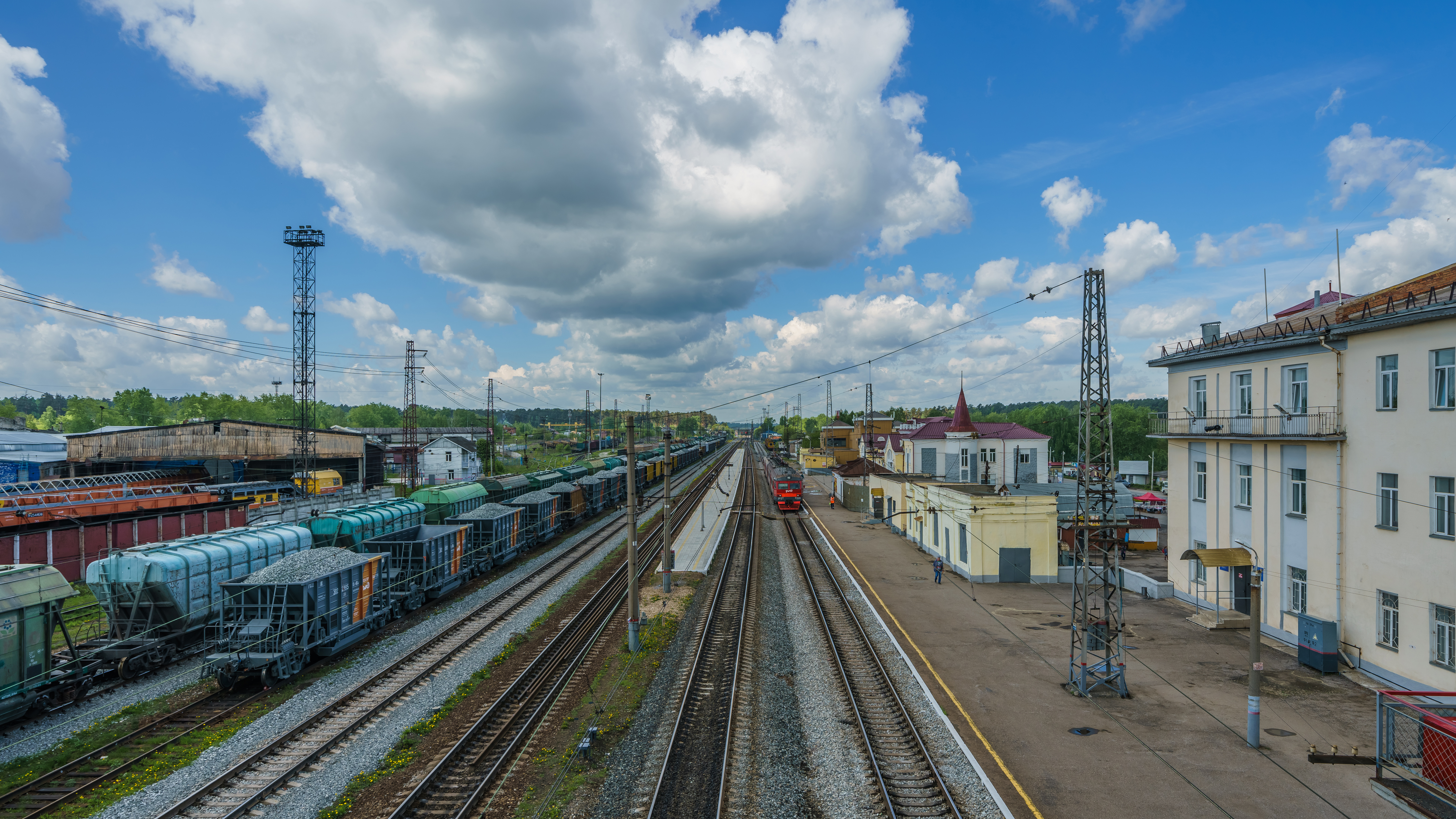 Railway station in Kungur, Perm Krai, Russia